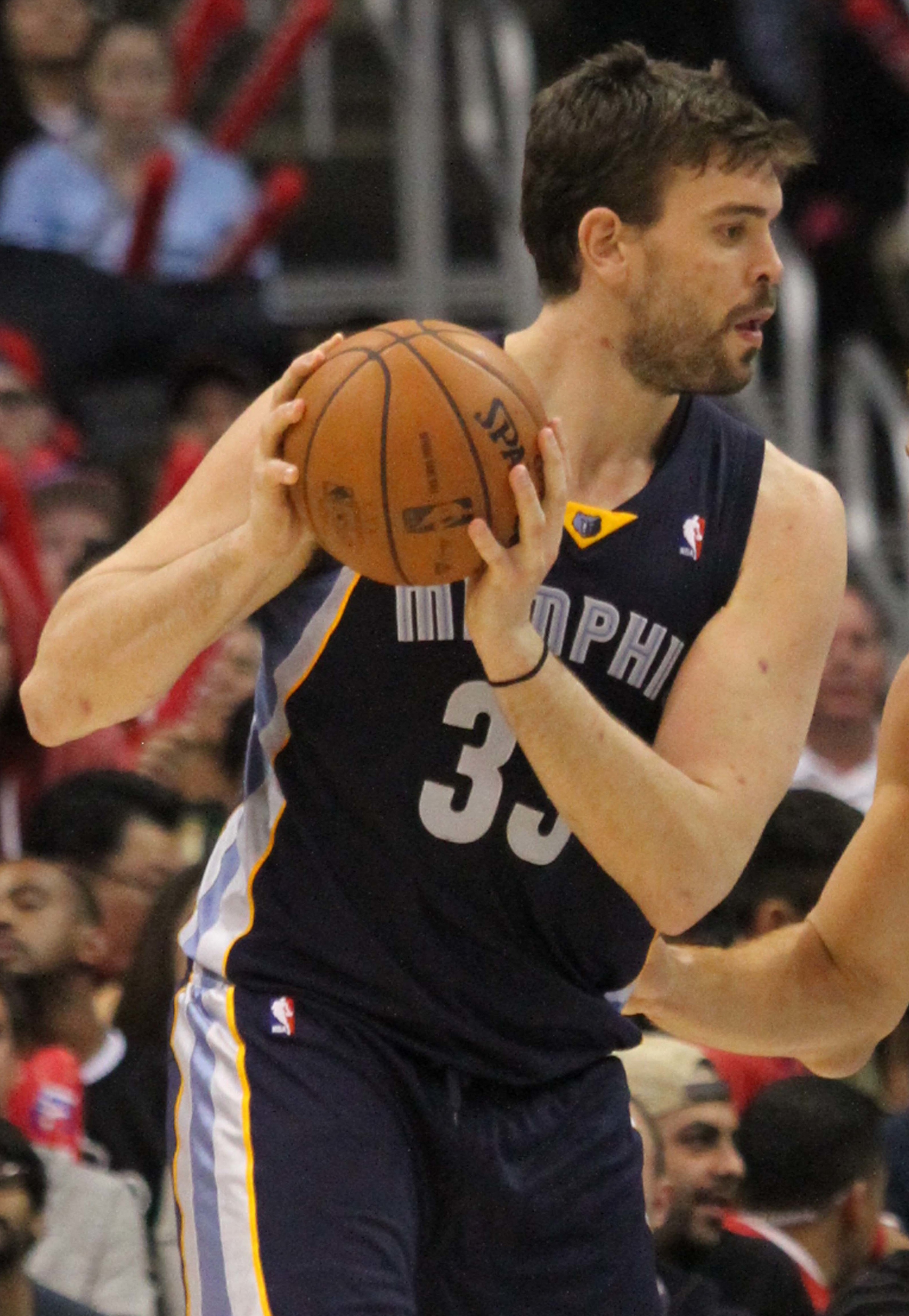 Marc Gasol of the Memphis Grizzlies playing against the Los Angeles Clippers